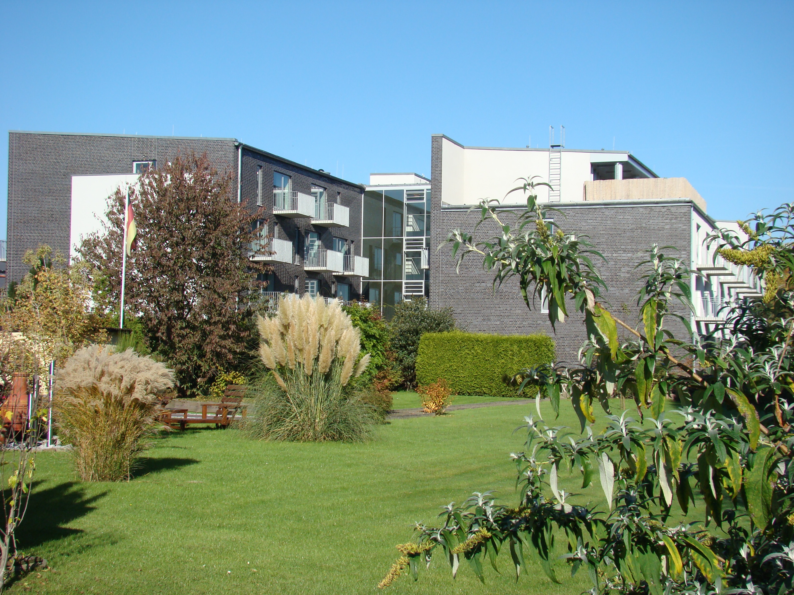 SportCentrum Kamen Kaiserau